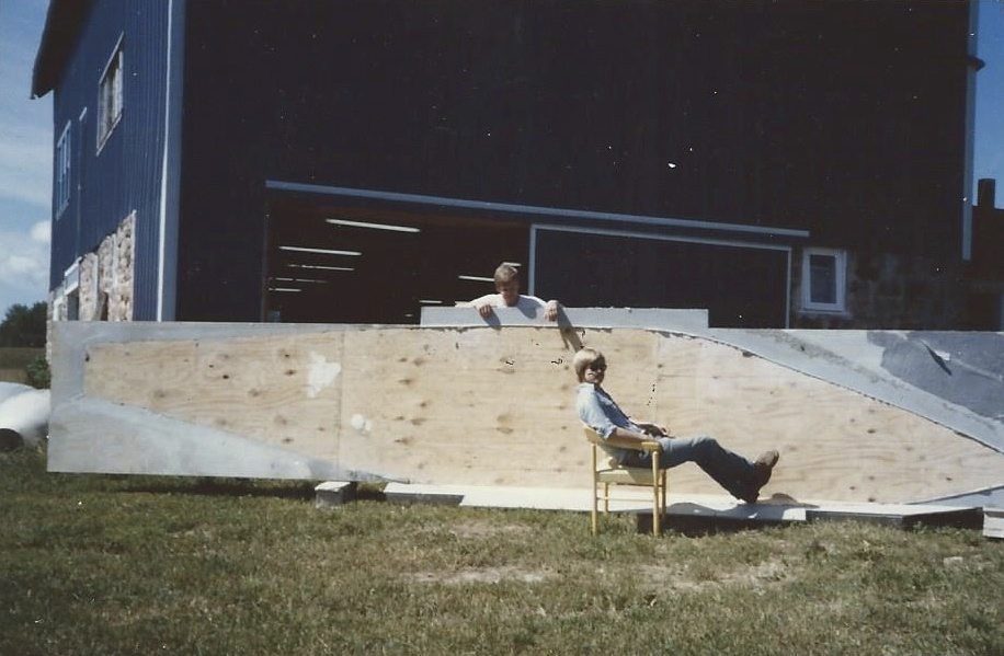 The Klapmeier brothers in 1984 outside their parent's dairy barn near Baraboo, Wisconsin. Dale is holding up a cutout of the Cirrus VK-30. Alan sits in front.